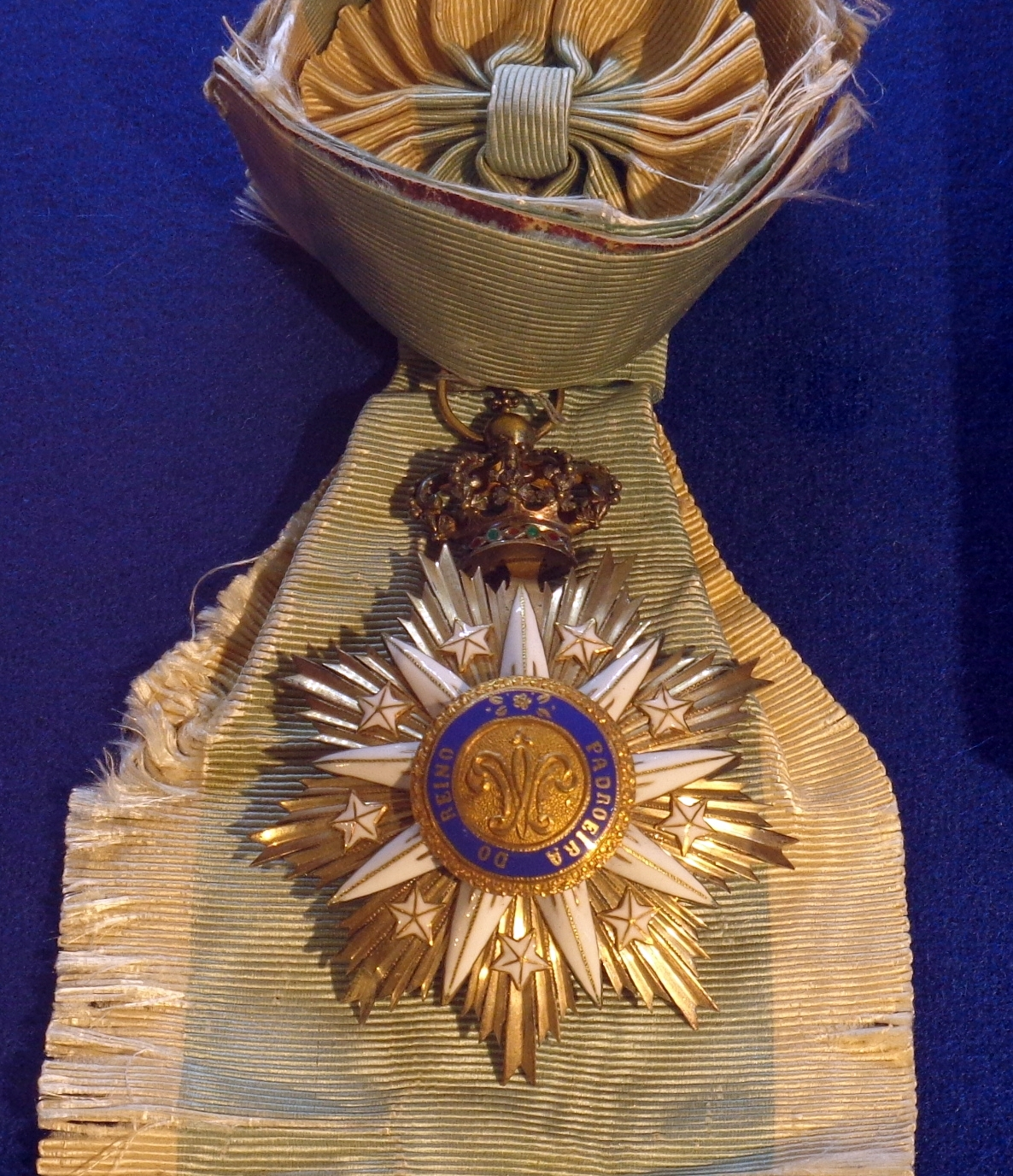 Order of the Immaculate Conception of Vila Vicosa, badge and sash of Grand Cross, c.1900. Portugal. The exhibition of the Tallinn Museum of Orders of Knighthood, Estonia.